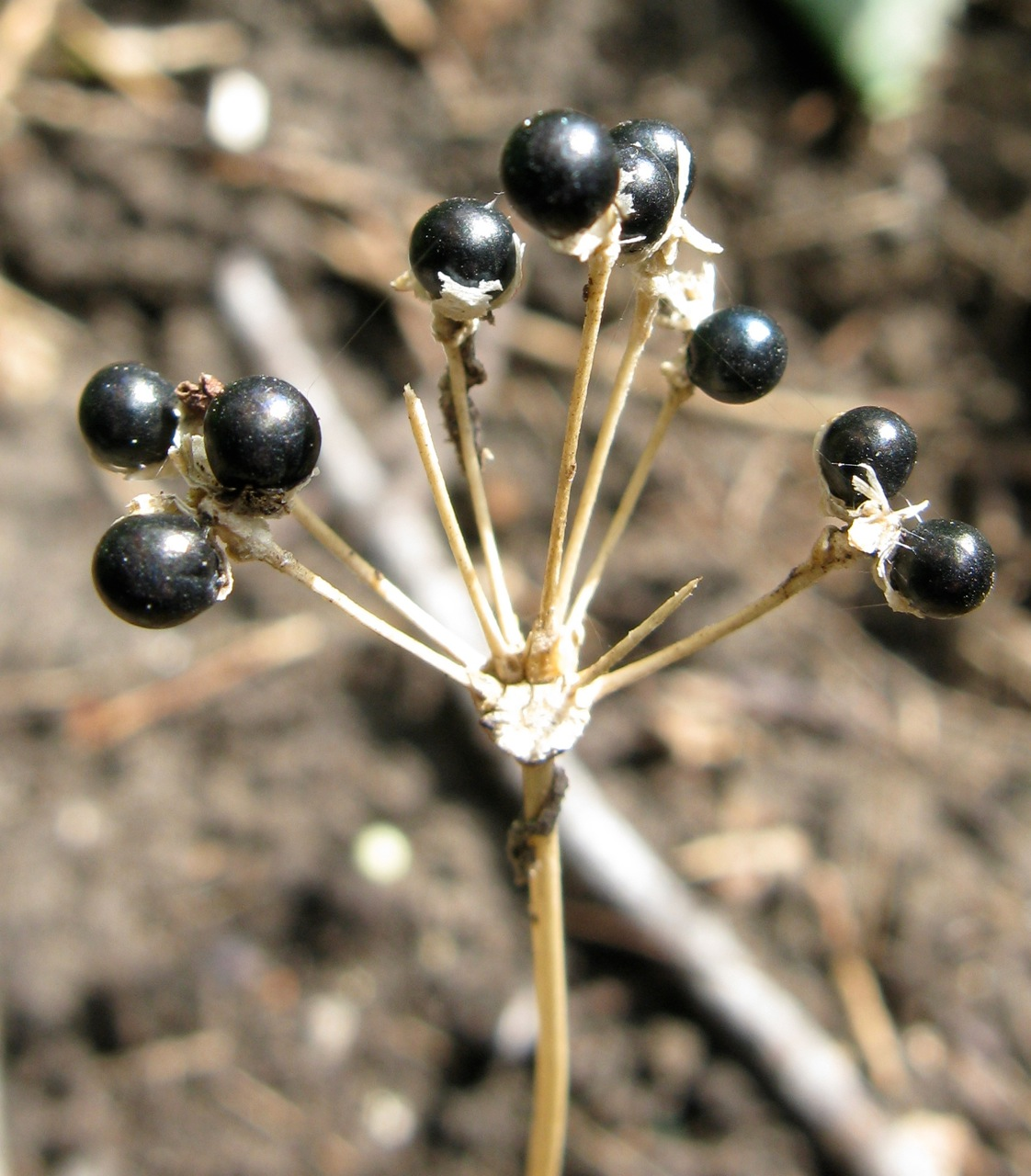 Ripe infructescence with seeds